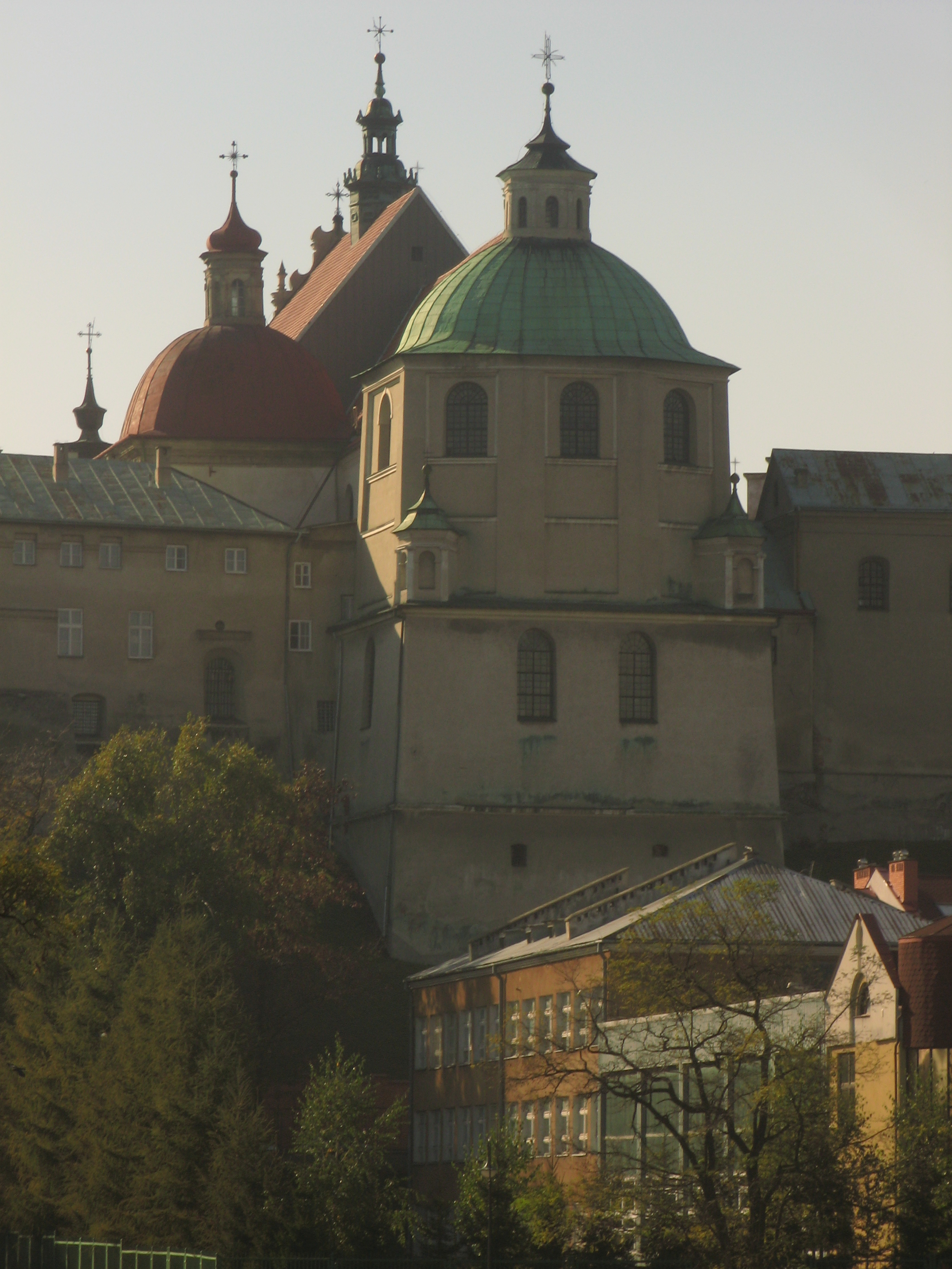 Dominican Church in Lublin